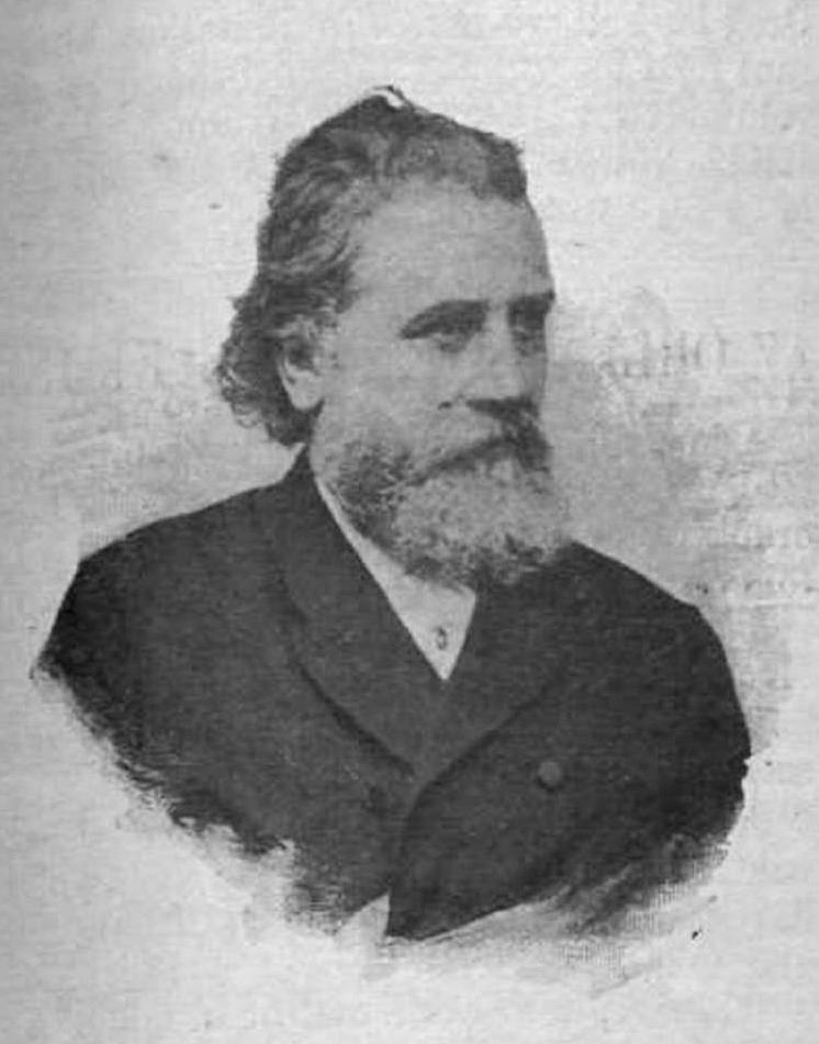 Károly Telepy